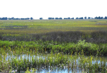 The marshes of Sapelo Island National Estuarine Research Reserve provide food and nesting habitat for a variety of birds, mammals, and reptiles and are also the nursery ground for many economically important fish and shellfish.